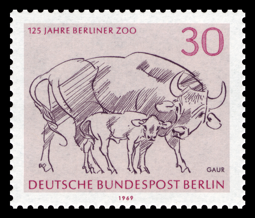 Miniature sheet containing 4 stamps, 125 years of Berlin Zoo